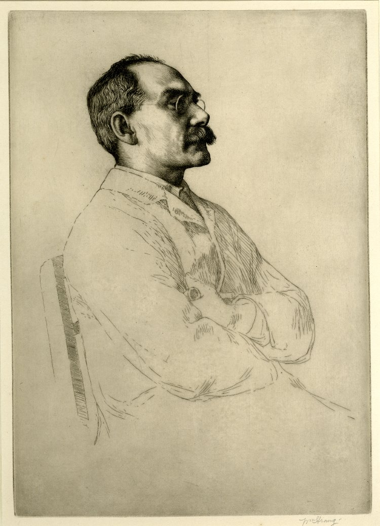 "Rudyard Kipling, No. 1," etching with engraving, by the Scottish-born artist William Strang. 353 mm x 252 mm. Courtesy of the British Museum, London.